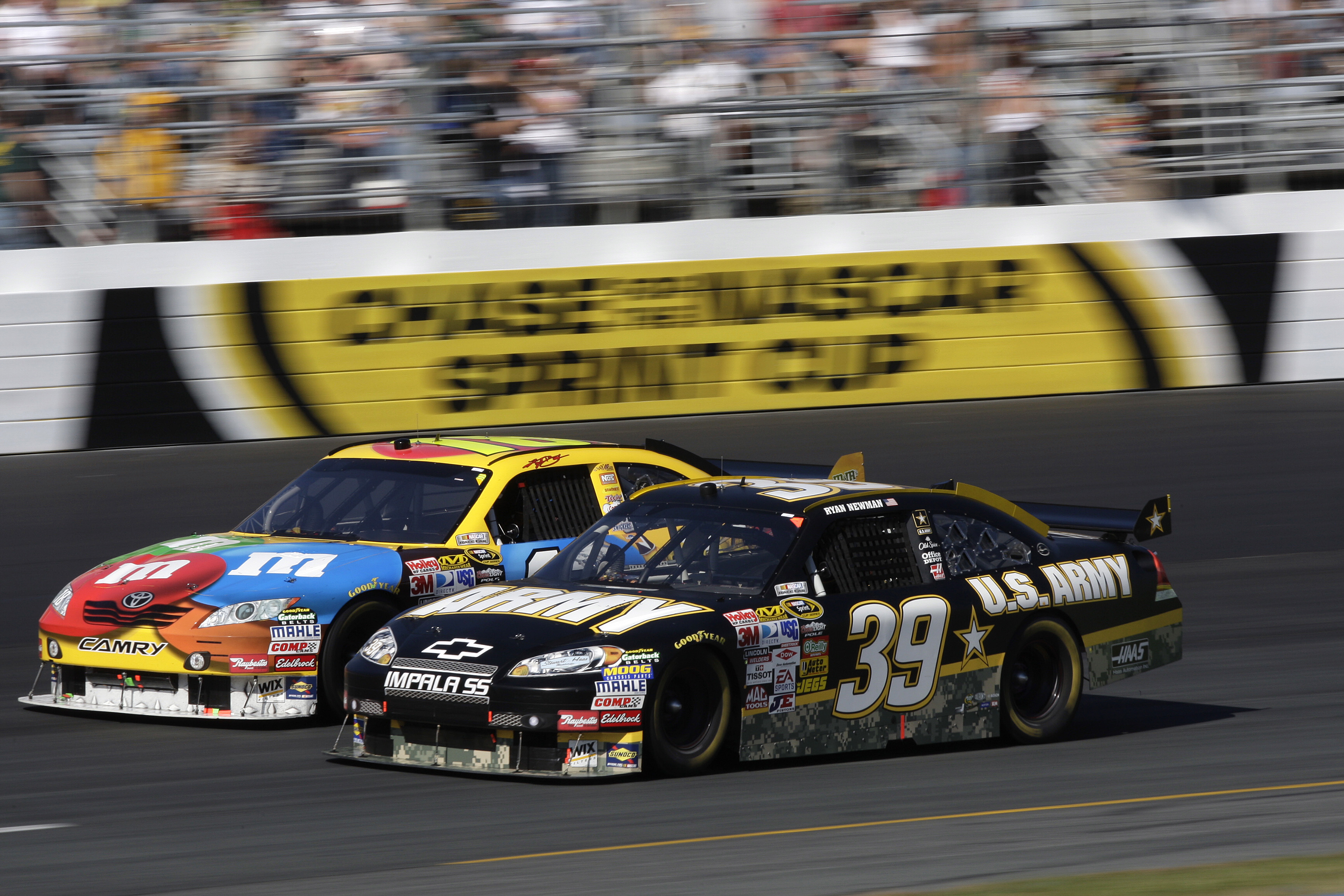 Ryan Newman edges his Number 39 Army Chevrolet Impala past Kyle Busch during Sunday's Sylvania 300 at New Hampshire Motor Speedway. Newman finished eighth overall.